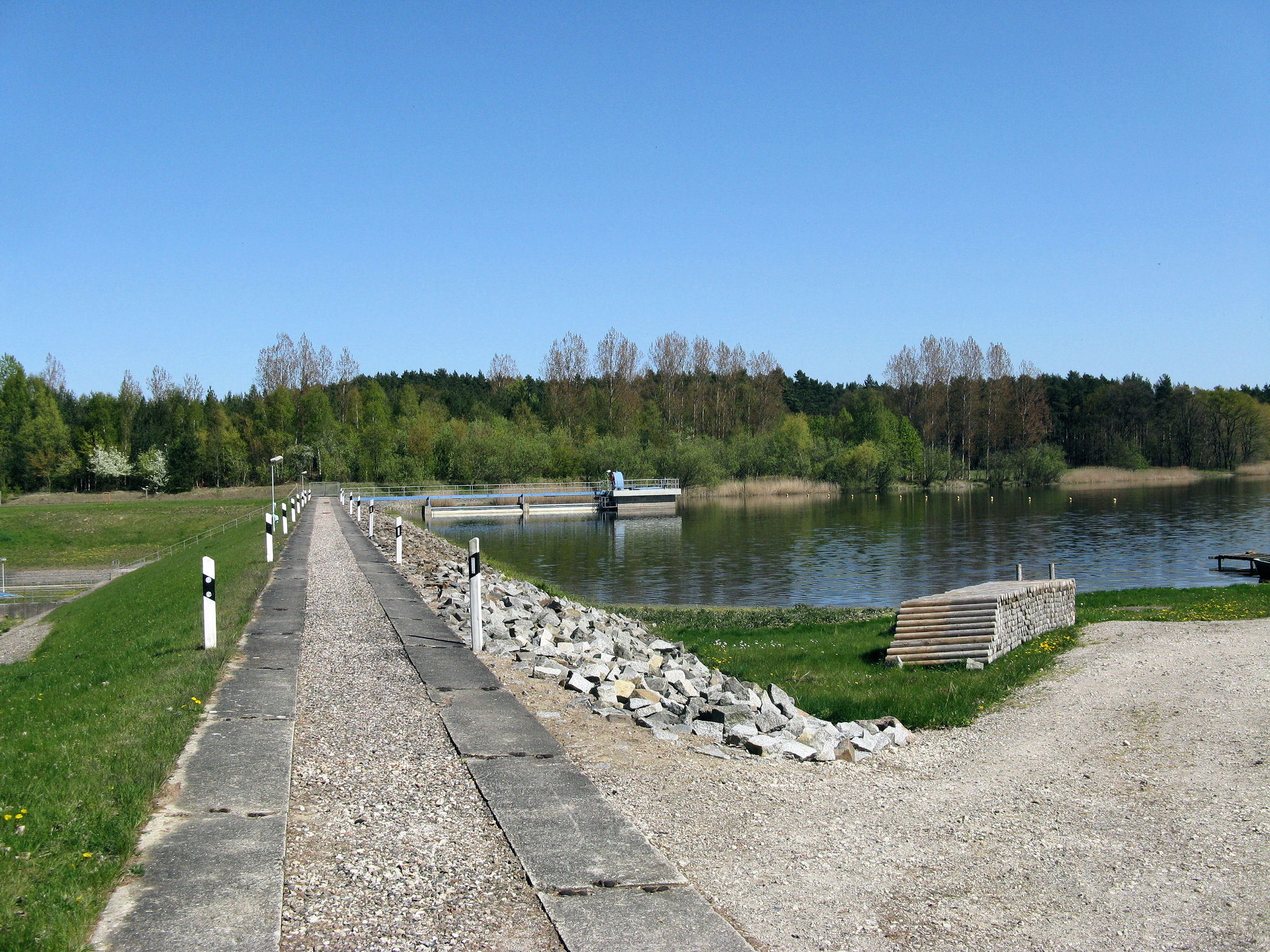 Dam at Reservoir Stausee Farpen in Alt Farpen, disctrict Nordwestmecklenburg, Mecklenburg-Vorpommern, Germany